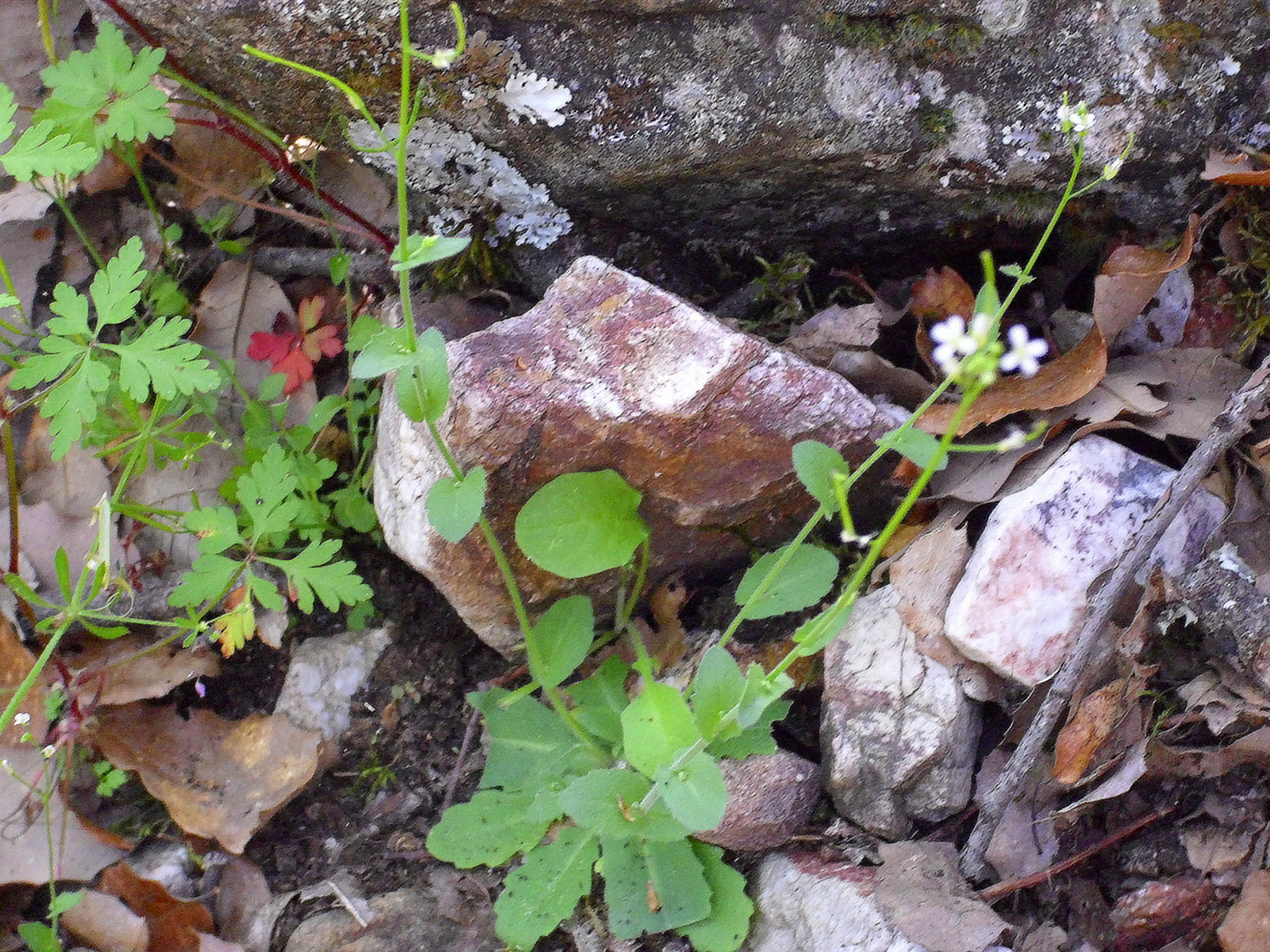 Arabis auriculata habit, Sierra Madrona, Spain